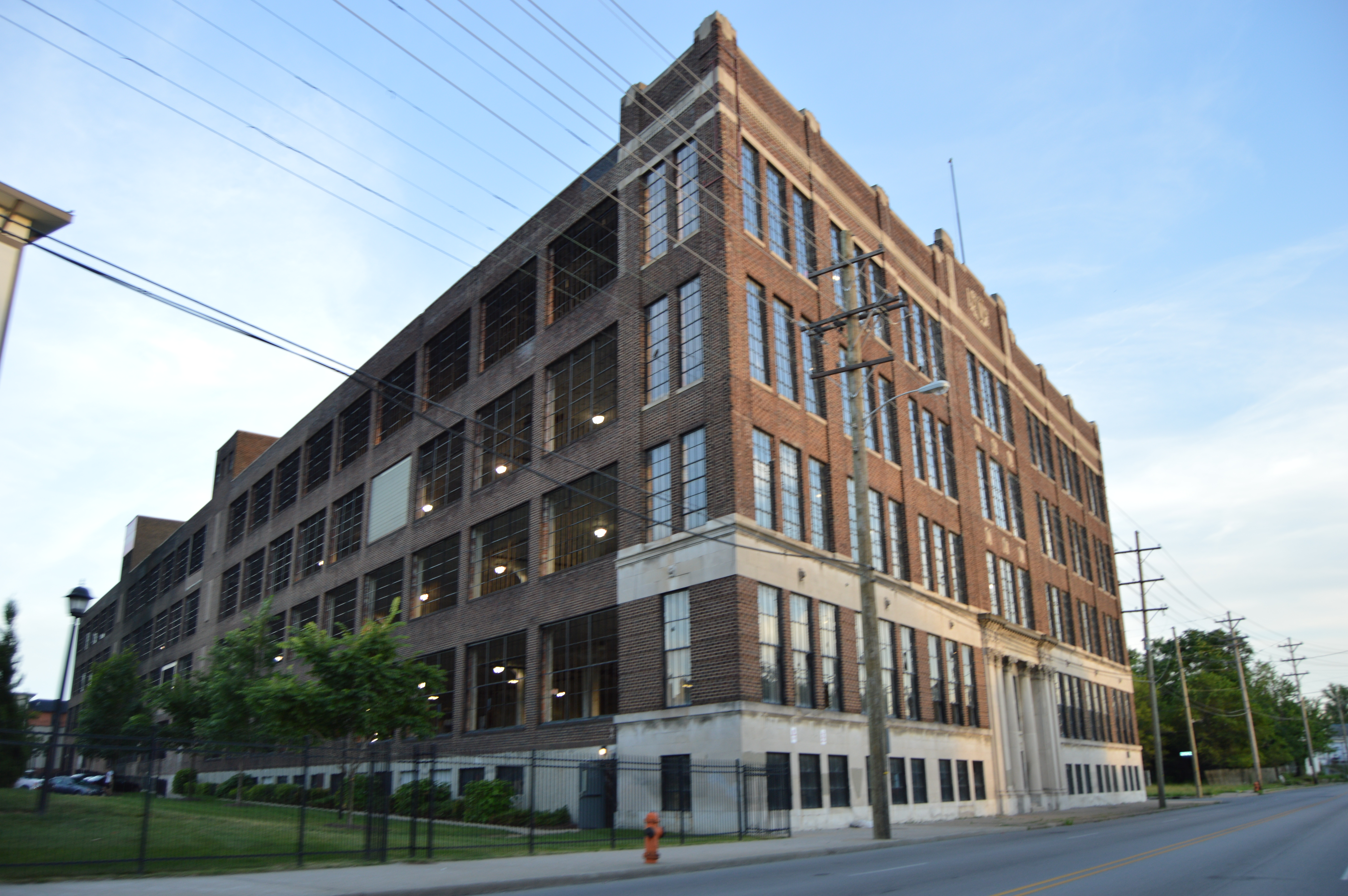 Front and northeastern side of the Brass Finishing Building of the Standard Sanitary Manufacturing Company, located at 1547 S. Seventh Street in Louisville, Kentucky, United States. Built in 1923, it is listed on the National Register of Historic Places.